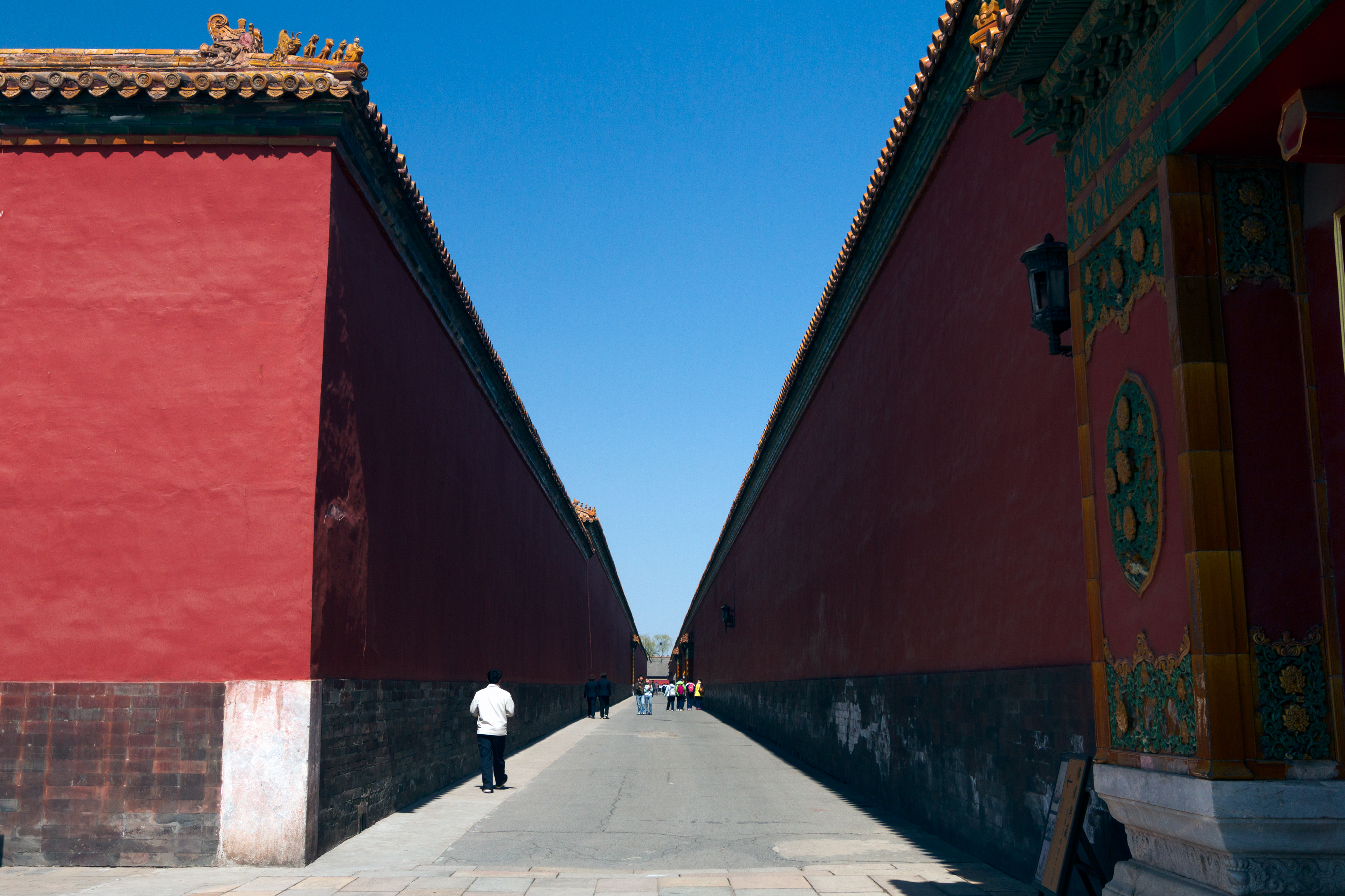 East path of the Inner Court of the Forbidden City ，